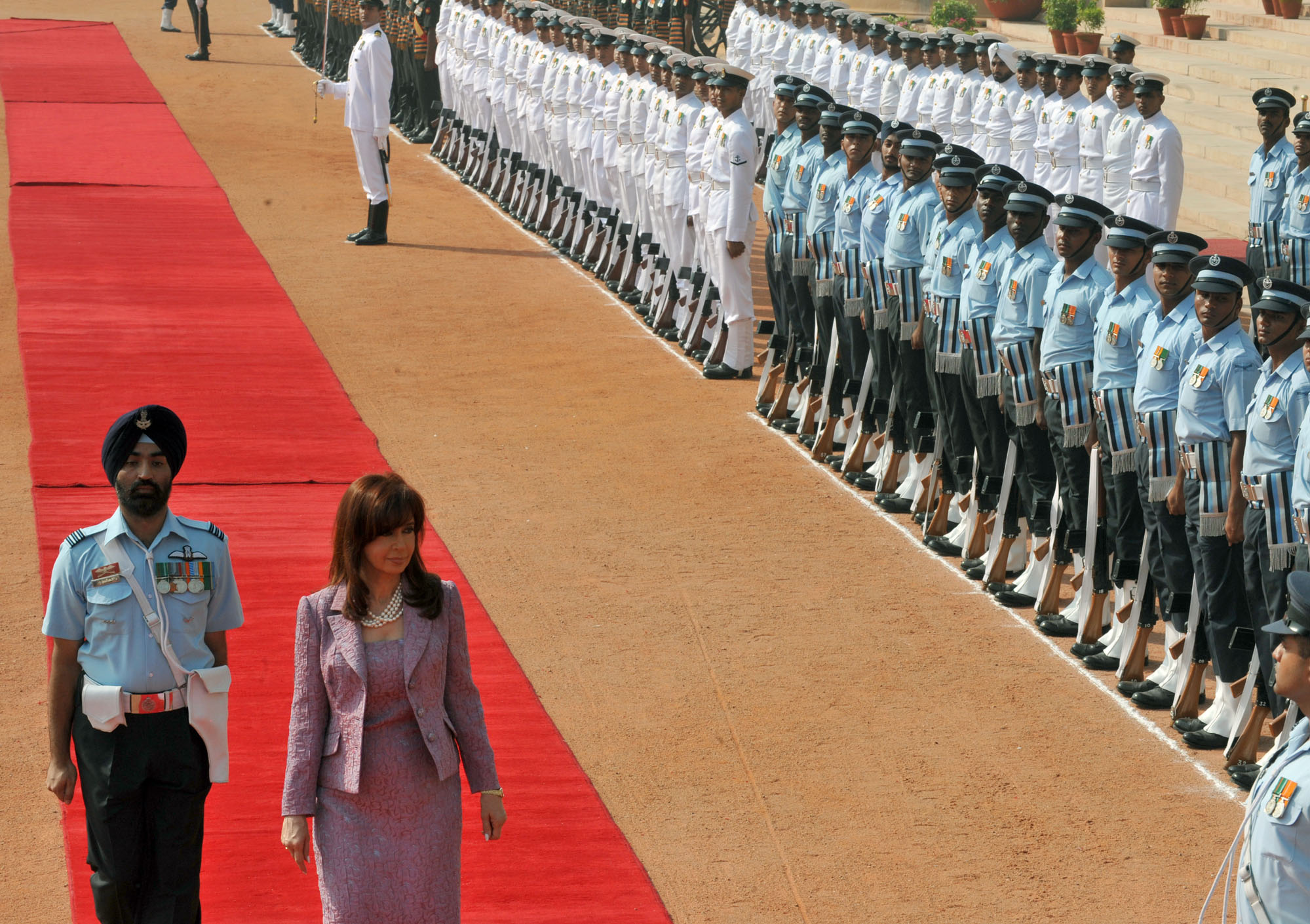 President Cristina Kirchner arriving at Hyderabad Palace, New Delhi